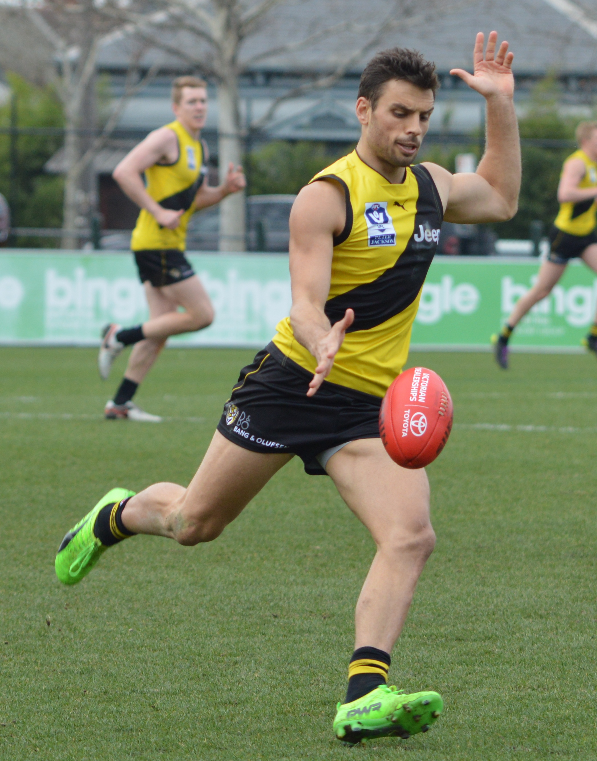 Sam Lloyd kicks the ball in a VFL match at Punt Road Oval in July 2017